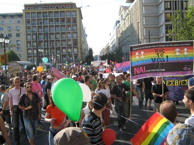 LGBT pride at Athens, Greece, 2008